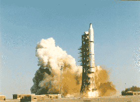 Rocket launch at Chinese Jiuquan Satellite Launch Center